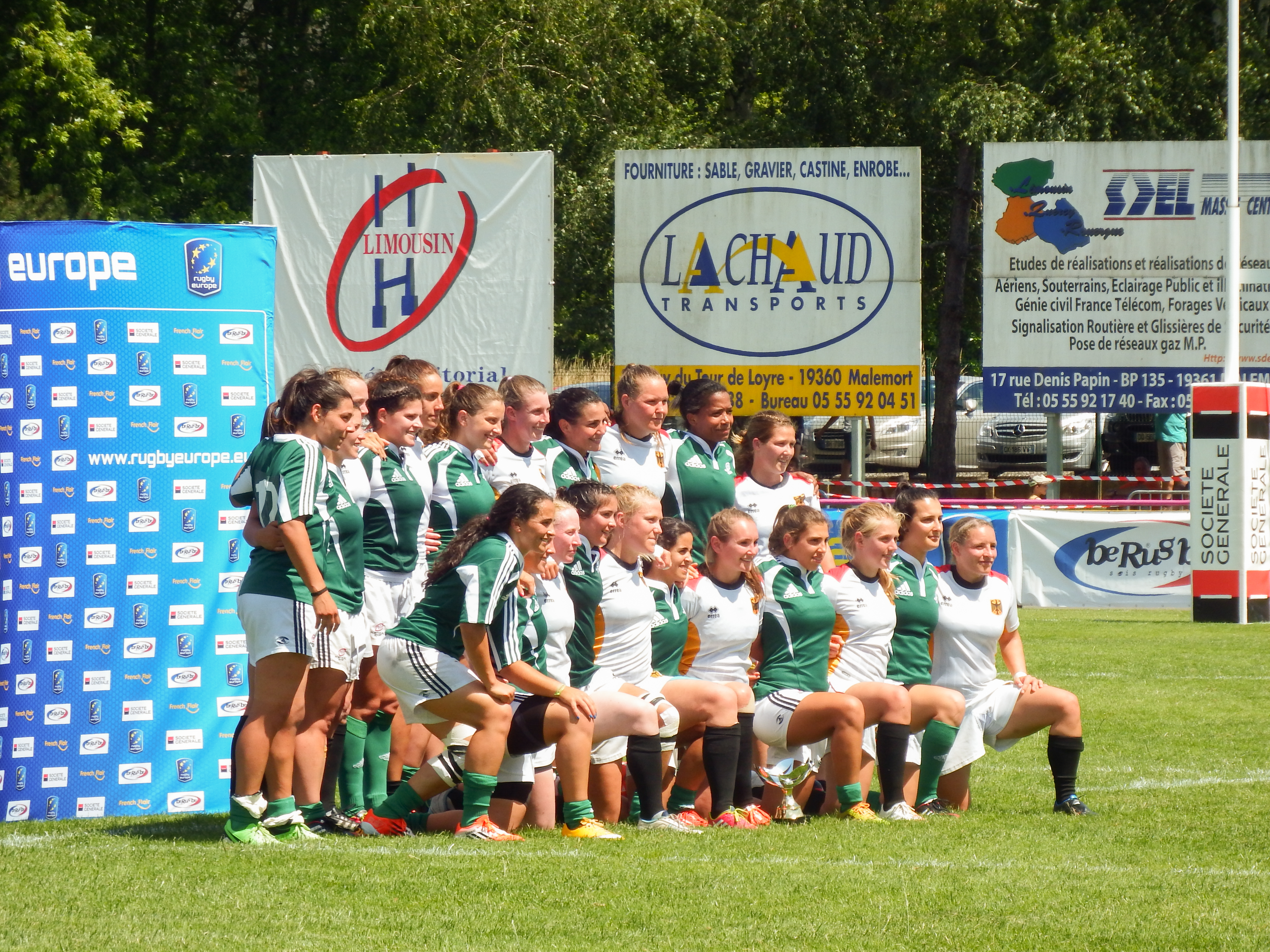 Malemort Sevens 2015 — 21 June 2015, stade Raymond-Faucher. Match between: Germany — Portugal